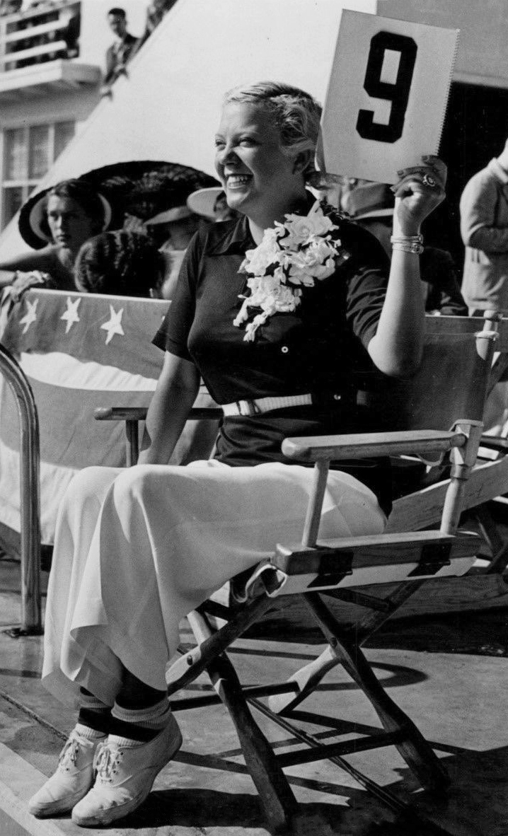 LD24 1938 Original Photo GEORGIA COLEMAN Woman's Aquatic Swim Meet Lap Judge